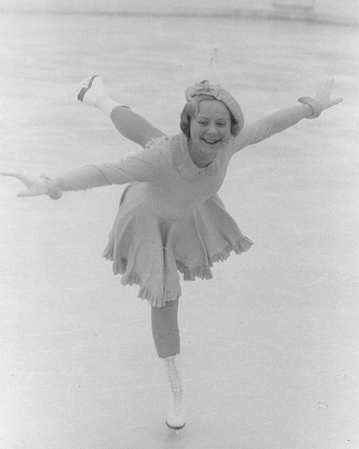 Sonja Henie of Norway in action during her routine in the Women's Figure Skating event at the 1936 Winter Olympic Games in Garmisch-Partenkirchen, Germany. Henie won the gold medal.